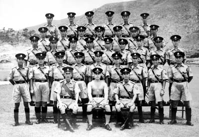 Hong Kong police officer, 1954